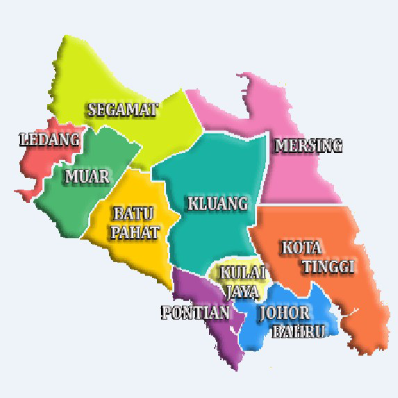 Divisions of the State of Johor, Malaysia with districts' name, PNG Format. 2006